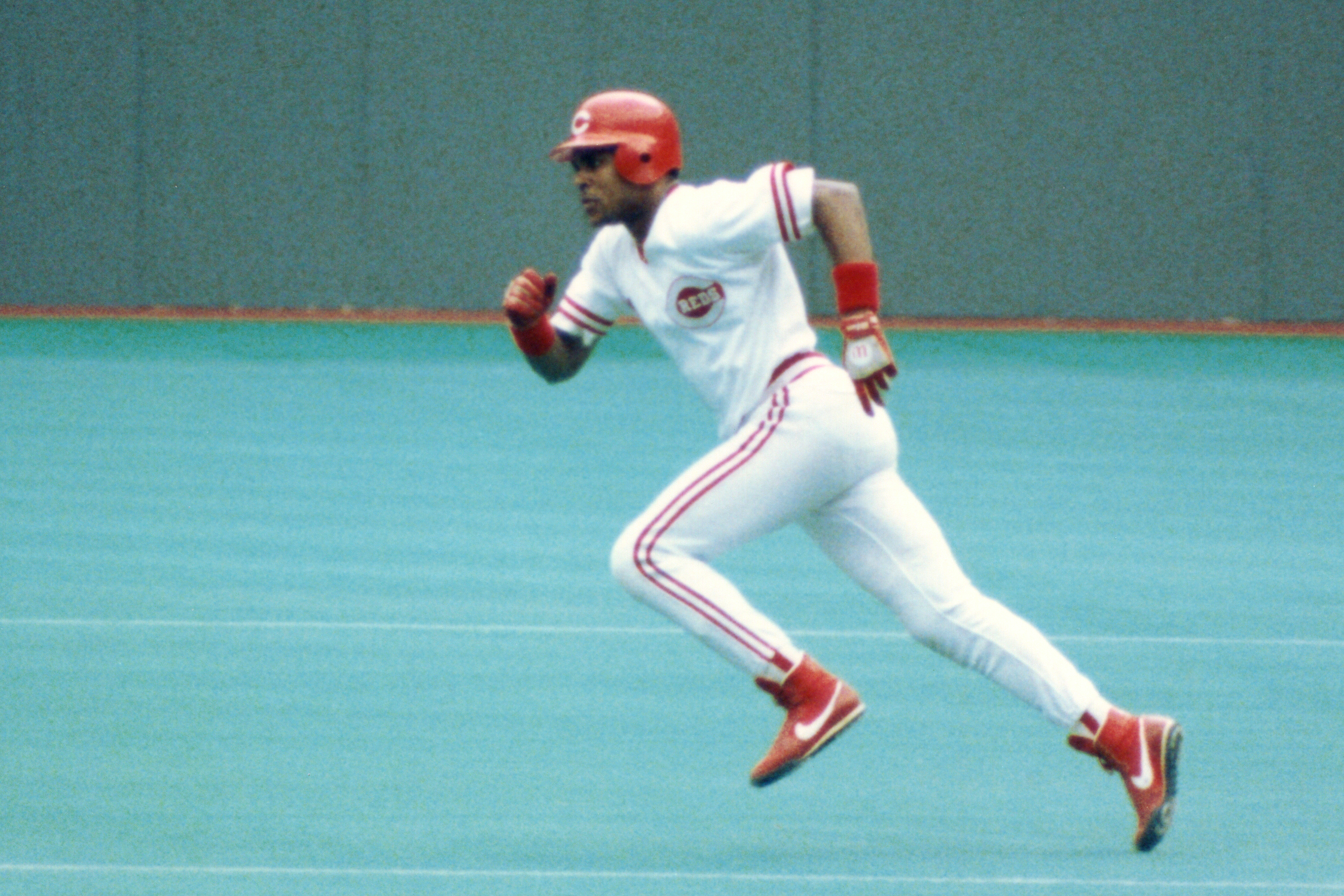 Shortstop Barry Larkin advances from first to second base during a game in Cincinnati's Riverfront Stadium in 1990.